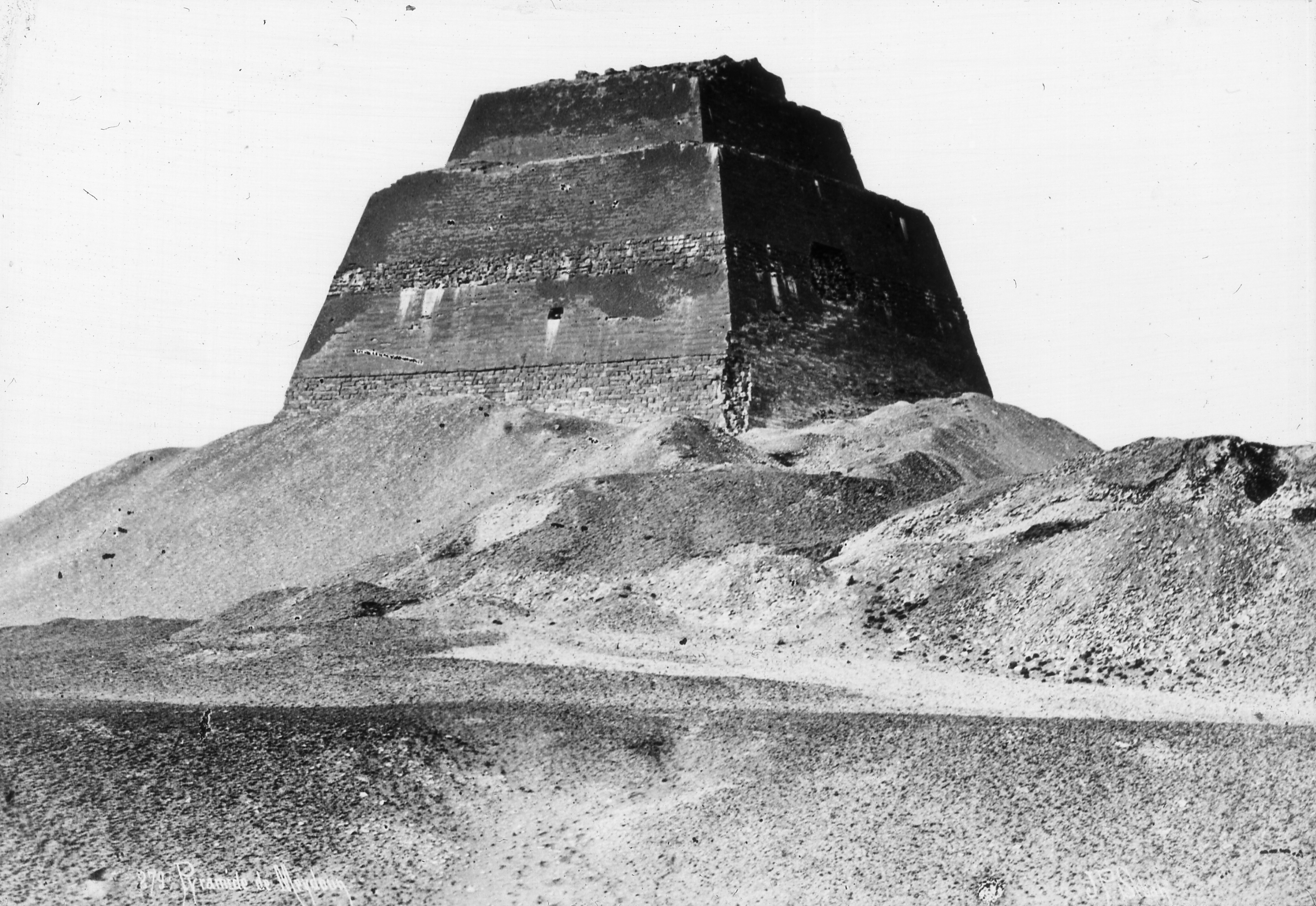 Lantern Slide Collection: Views, Objects: Egypt. Meidum. [selected images]. View 02: Egyptian - Old Kingdom. Step Pyramid of Meidum, 4th Dyn., n.d. Brooklyn Museum Archives (S10|08 Meidum, image 9648).